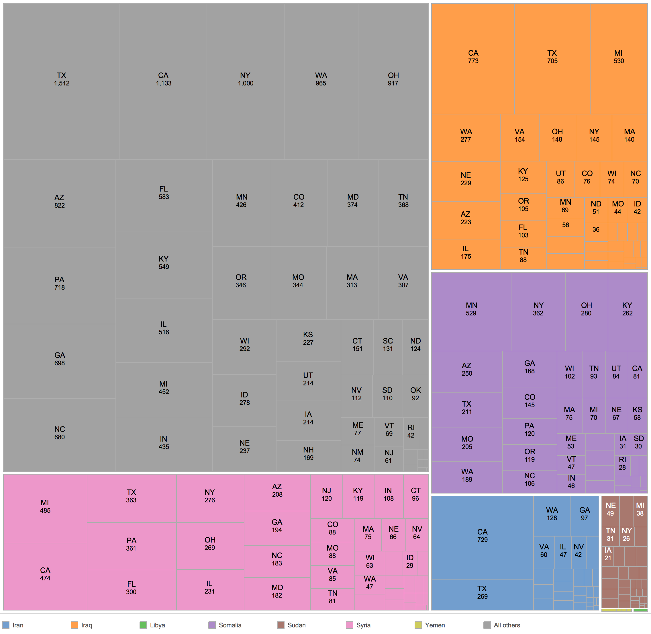 Tree map of refugees admitted to the US for fiscal year 2017, from dates October 1, 2016 through January 31, 2017. Detail given for 7 nations in Executive Order 13769, other nationalities grouped. Area indicates number of refugees placed in each US state, grouped by nationality. Source Arrivals by State and Nationality as of January 31, 2017[1] (Microsoft Excel), US Department of State, January 31, 2017